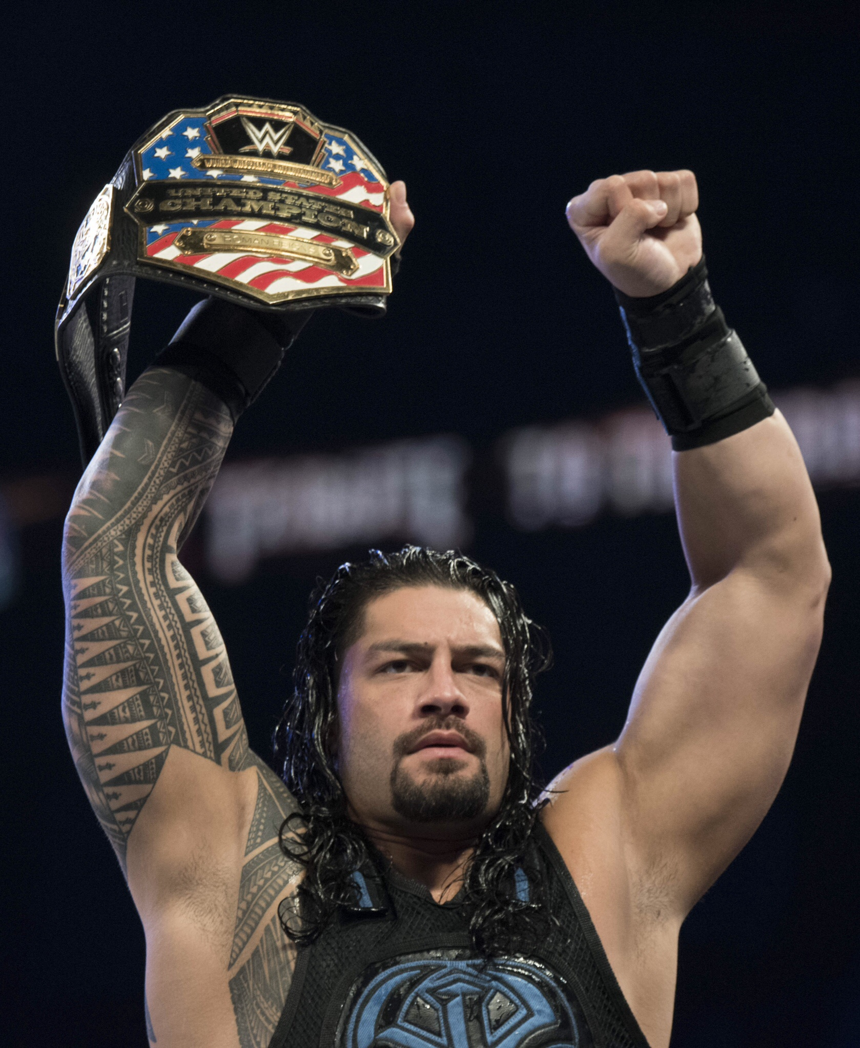 WWE performers Roman Regins participates in the 14th Annual Tribute to the Troops Event at the Verizon Center in Washington, D.C., Dec. 13, 2016. WWE Tribute to the Troops is an annual event held by WWE and Armed Forces Entertainment in December during the holiday season since 2003, to honor and entertain United States Armed Forces members. WWE performers and employees travel to military camps, bases and hospitals, including the Walter Reed National Military Medical Center at Naval Support Activity Bethesda. DoD Photo by Navy Petty Officer 2nd Class Dominique A. Pineiro